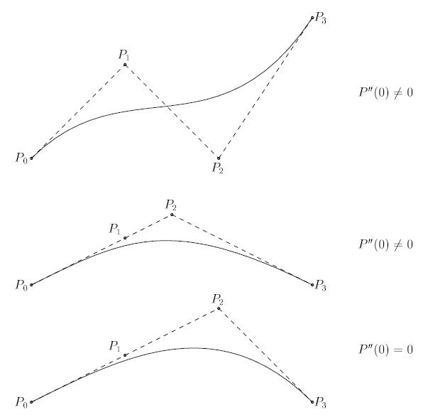 spline